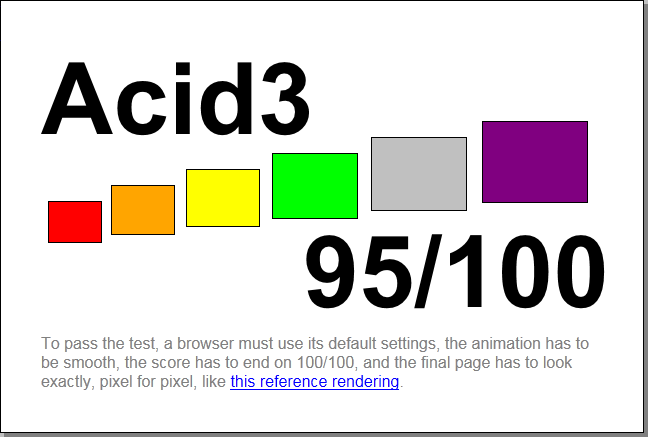 This is the result of running the Acid3 test on Internet Explorer 9